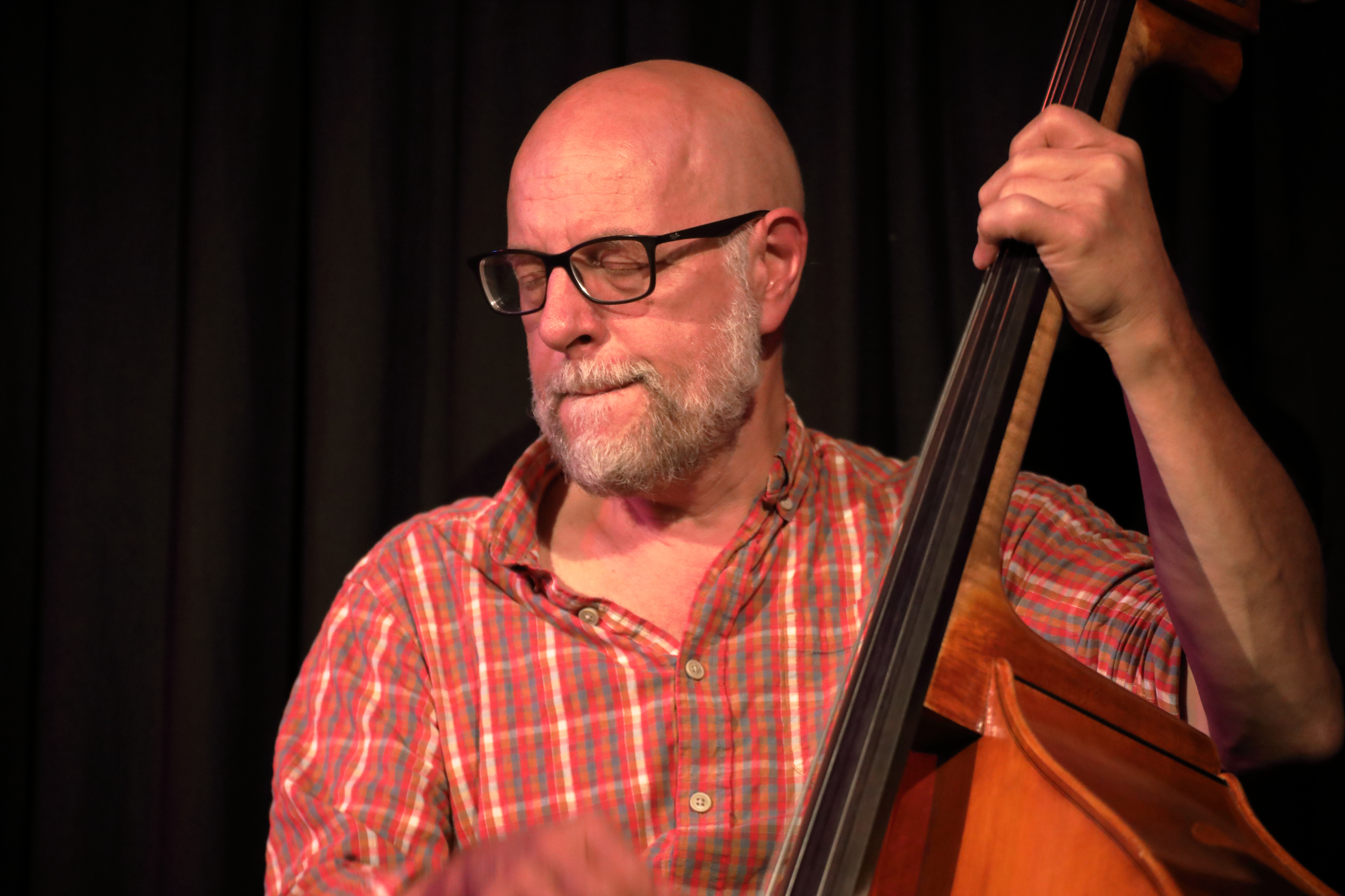 The Rodrigo Amado This Is Our Language 4TET at Club W71, Weikersheim. The members are Rodrigo Amado (sax), Joe McPhee (sax), Kent Kessler (db) & Chris Corsano (dr).